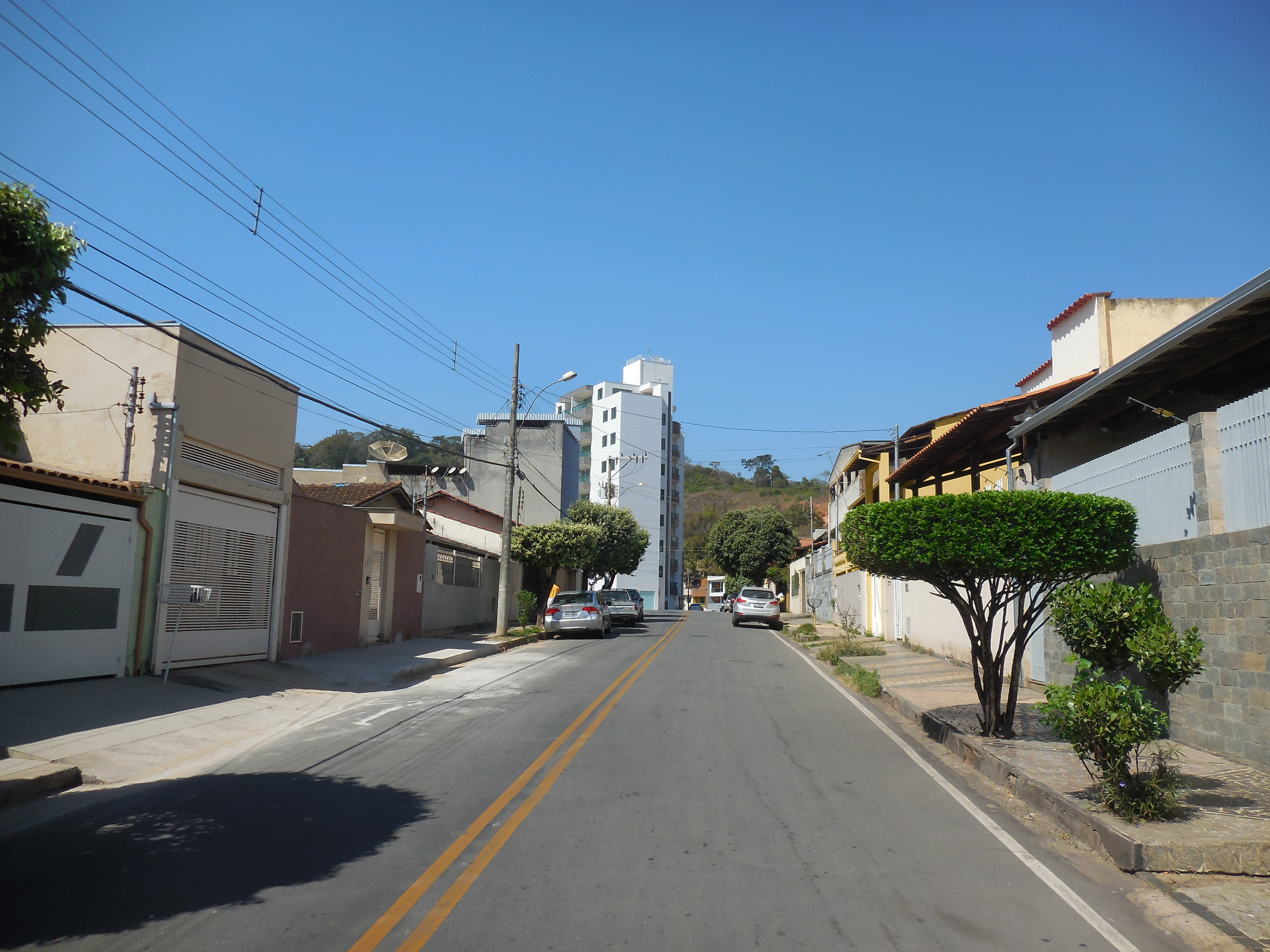 The 13 street in the Santa Maria neighborhood, in Timóteo, Minas Gerais, Brazil.